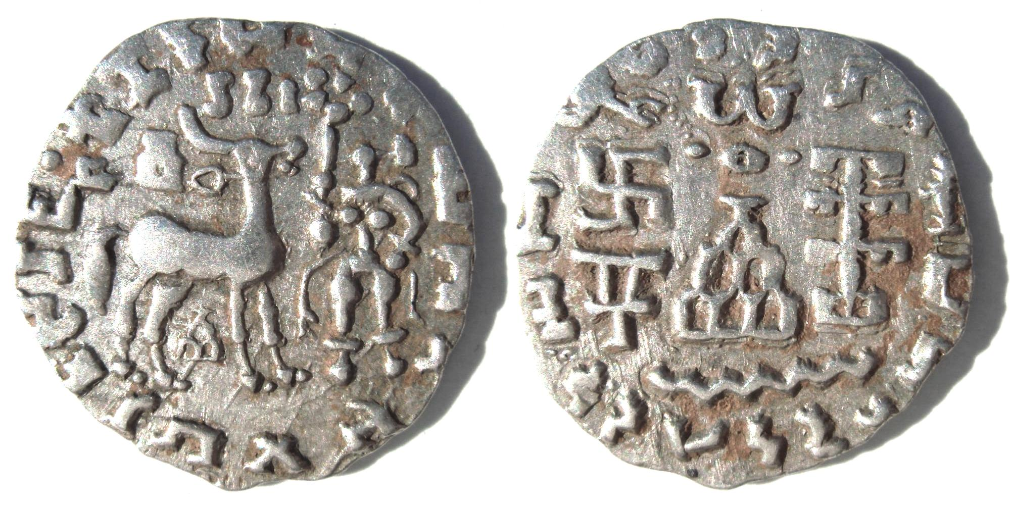 Kuninda coin. 1st-2nd century BCE. Personal photograph, 2004 (English wikipdia User PHG).